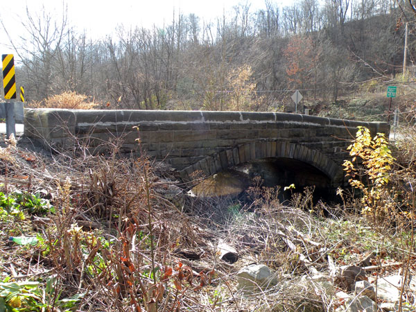 Picture of Bridge in Jefferson Borough located on Cochran Mill Road over Lick Run in Jefferson Hills, Pennsylvania, and South Park Township, Allegheny County, Pennsylvania, on November 14, 2009. The bridge was built around 1901, and is listed on the National Register of Historic Places.